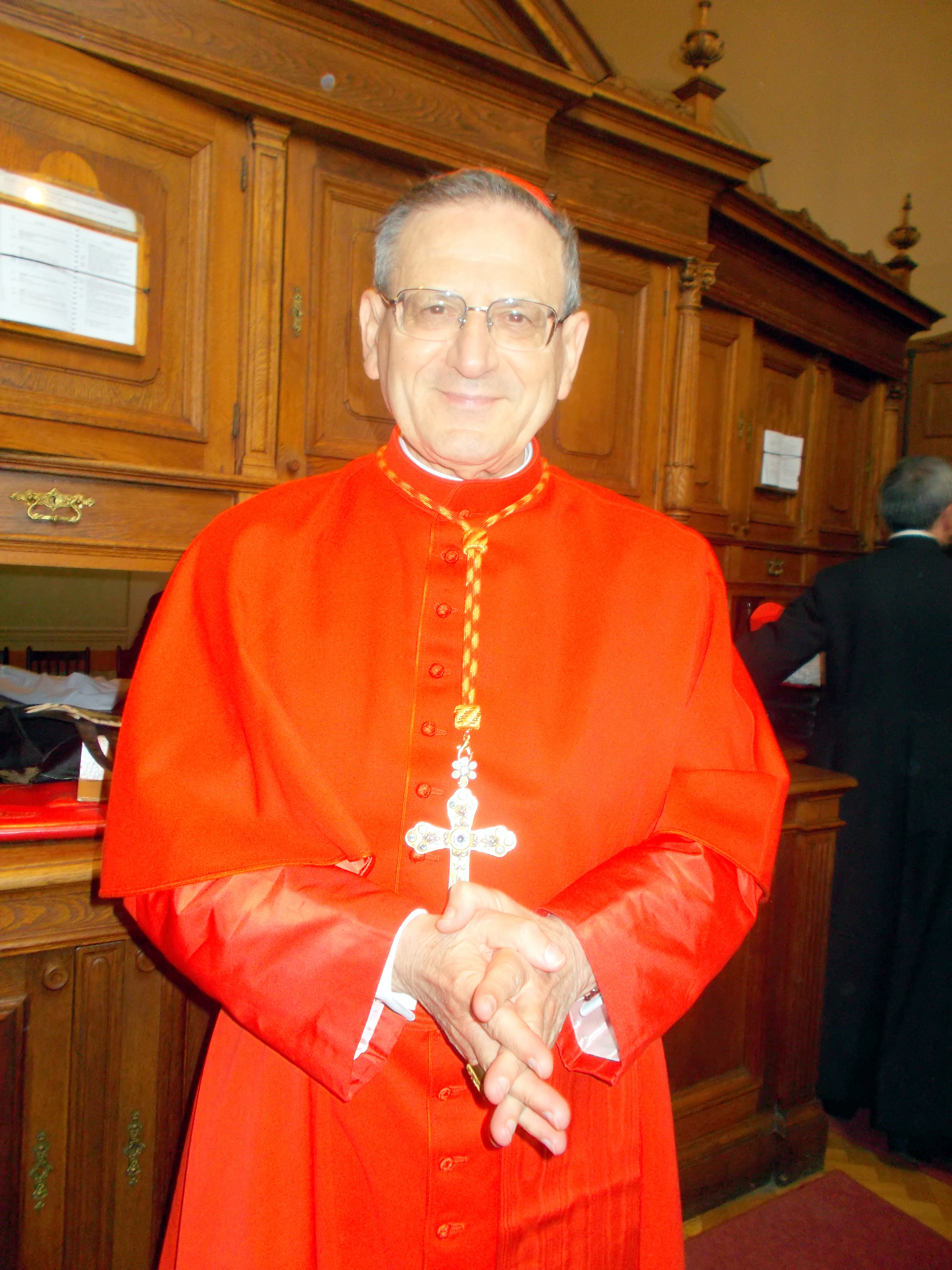 Angelo Amato, Catholic Cardinal and prefect of Congregation for causes of Saints in Budapest